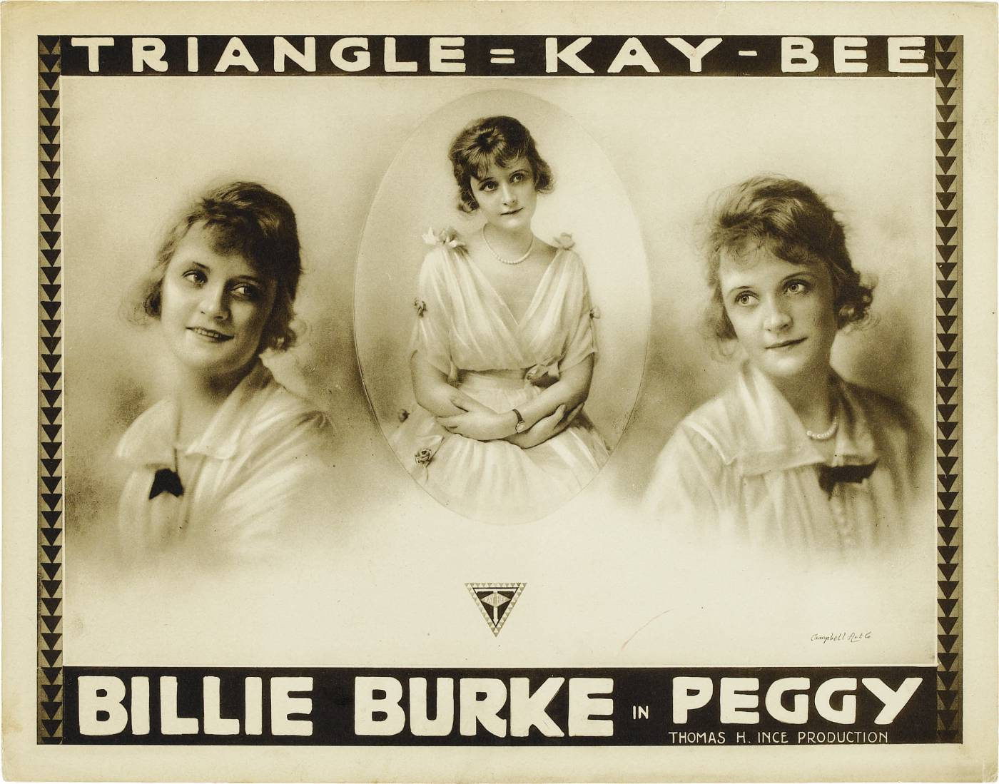 Peggy is a 1916 silent film comedy drama produced and directed by Thomas Ince and starring Billie Burke in her motion picture debut. It is a lost film.